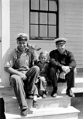 Mr. Albert Beyer, the lighthouse keeper on Destruction Island, his daughter, and Elmer Winbeck, skipper of the Coast Guard boat "Quillayete". The young fawn came from the Elwha River. Olympic National Park. Keywords: structure; lighthouse; u.s. coast guard; children; Military(NPS History Collection Themes); Architecture(NPS History Collection Themes)